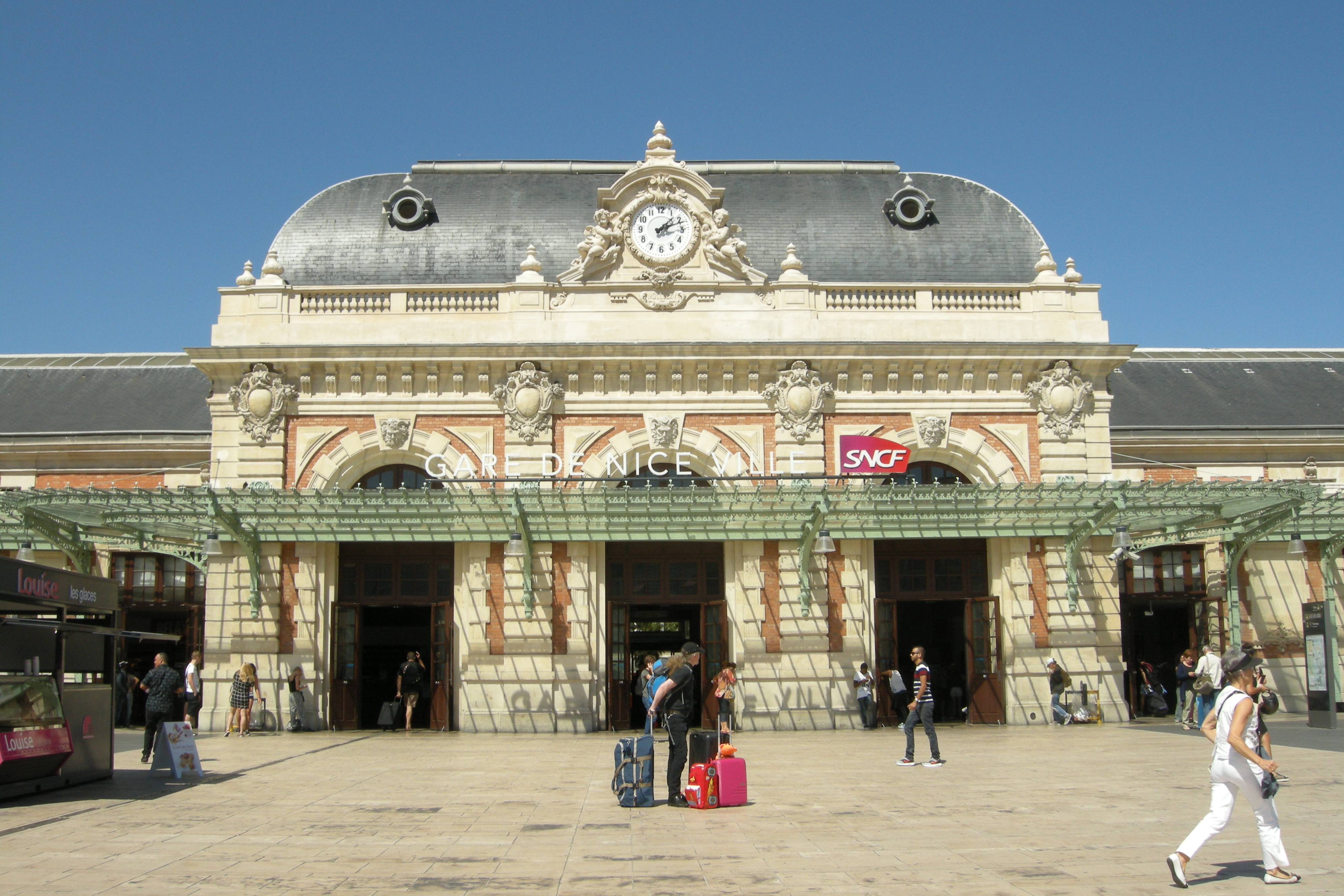 Nice train station